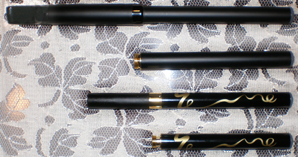 Two electronic cigarette models. Self-taken photograph by Equazcion. From top down: 1. RN4072 (full size "pen style"), fully assembled 2. RN4072 spare battery 3. CT-M401, fully assembled 4. CT-M401 spare battery